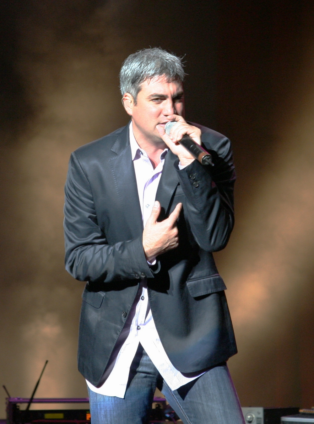 Taylor Hicks during a performance in Jacksonville, Fl.